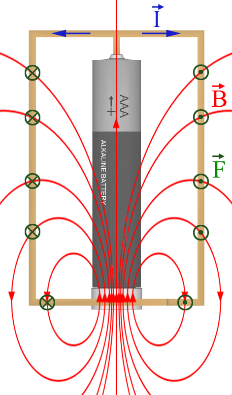 Homopolar motor made of 3 parts : battery, magnet, wire.